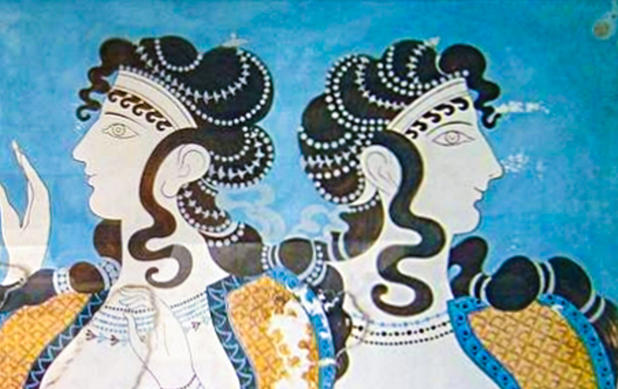 A fresco from the palace of Knossos, made 1500 BCE